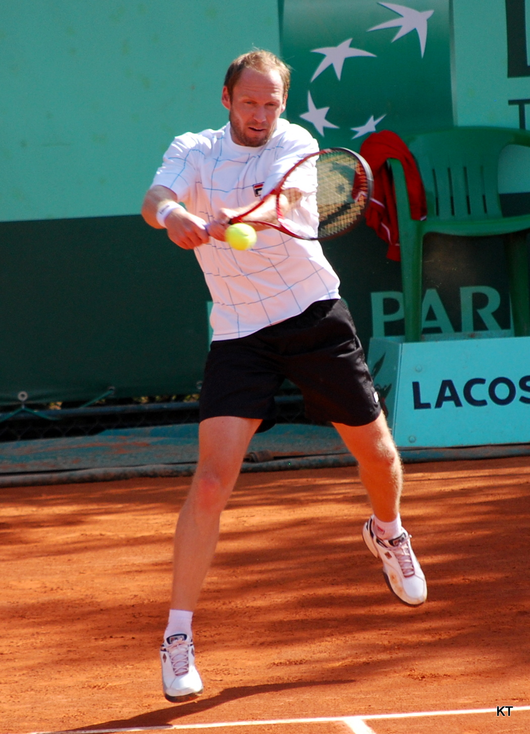 Rainer Schüttler during his 2nd round doubles match with partner Alexander Waske, against Scott Lipsky & Rajeev Ram. Lipsky & Ram won 7-6, 6-3. Day 7 of Roland Garros 2011.